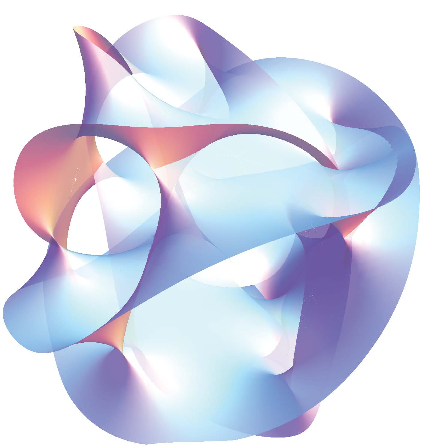 This is an image of a two-dimensional hypersurface of the quintic Calabi-Yau three-fold.